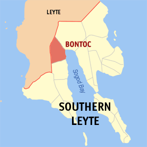 Map of Southern Leyte showing the location of Bontoc